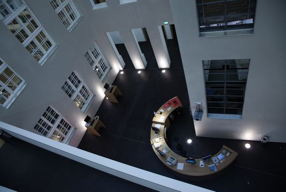 Indor Upper Austrian Library